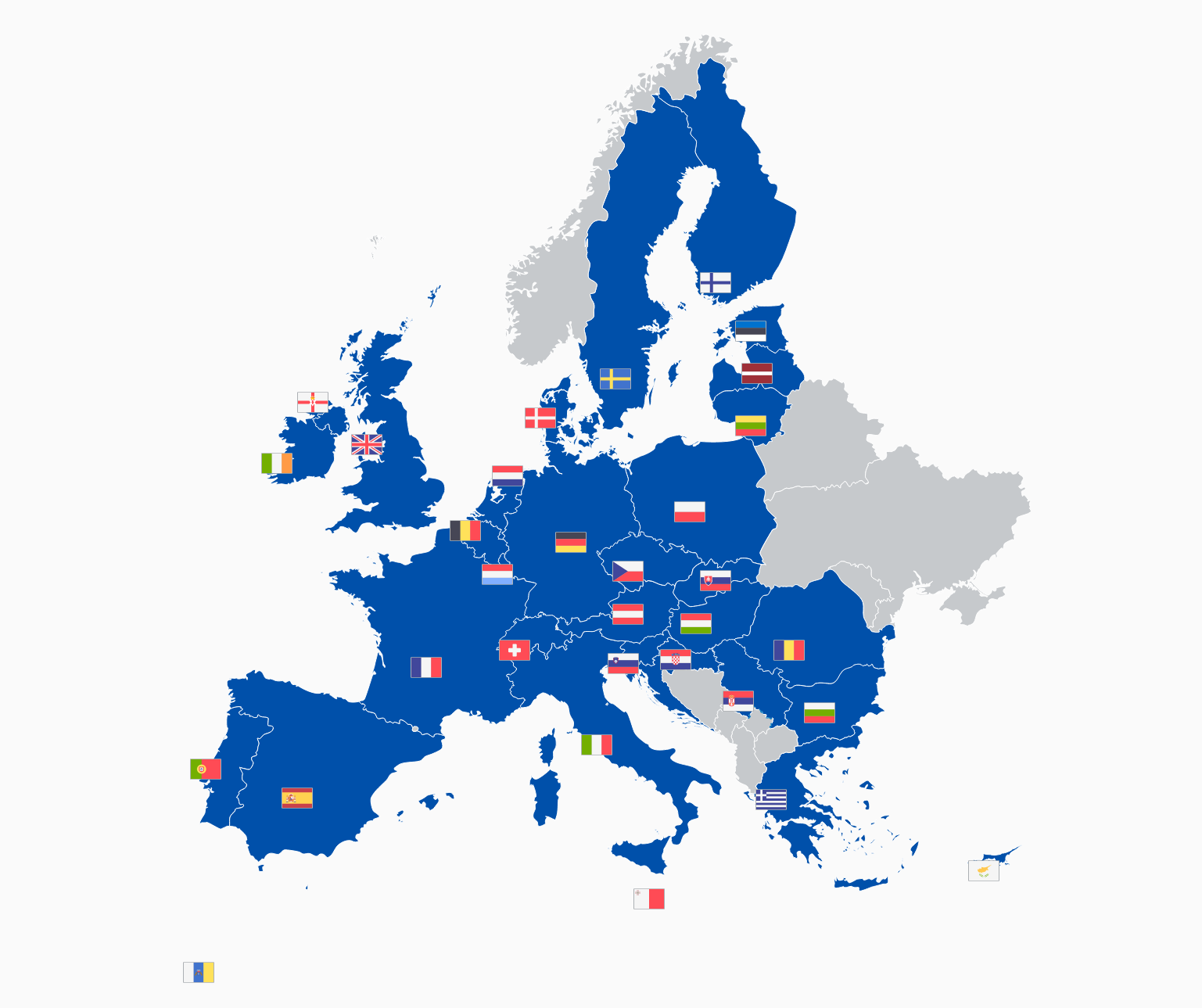 The picture from the official Lidl website.